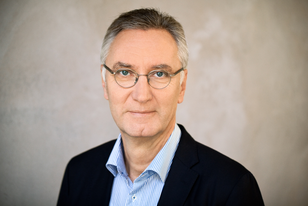 Michael Schulte-Markwort